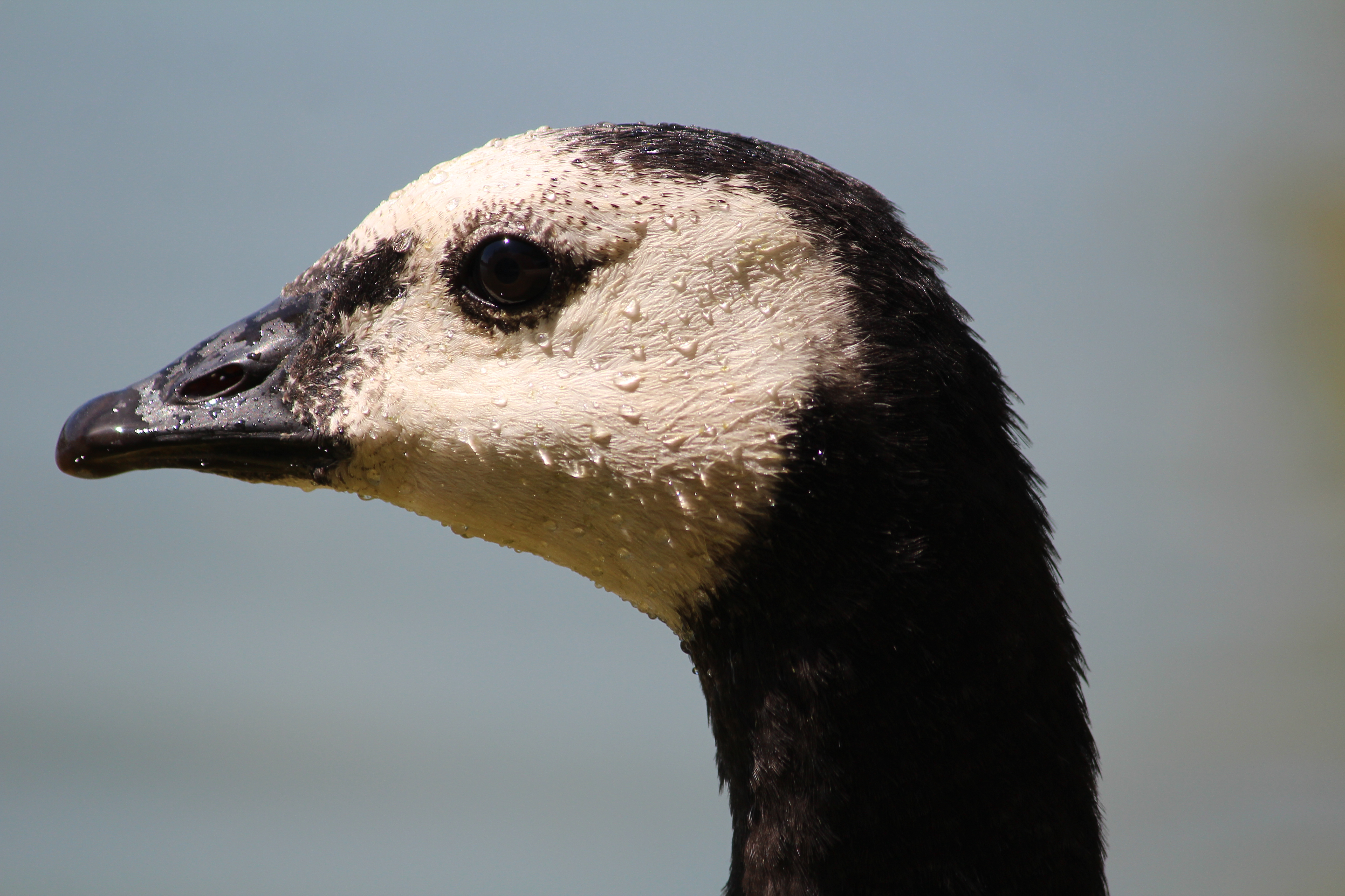 The head of a Barnacle Goose